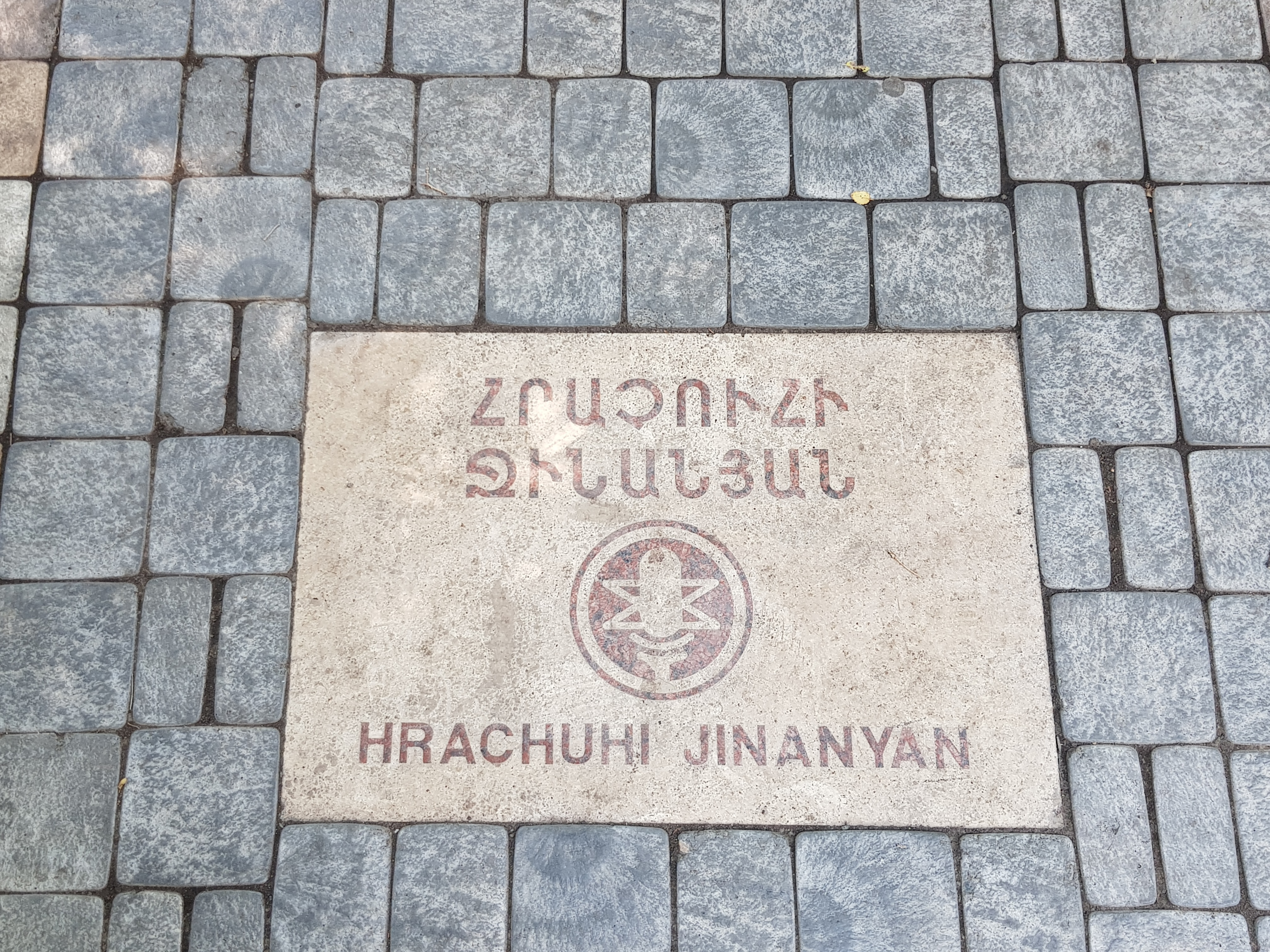 Alley of Devotees, Yerevan